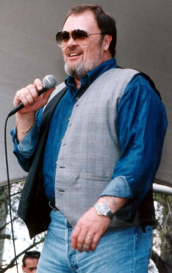 David Clayton-Thomas performing at Gulfstream Park in Hallandale, FL.